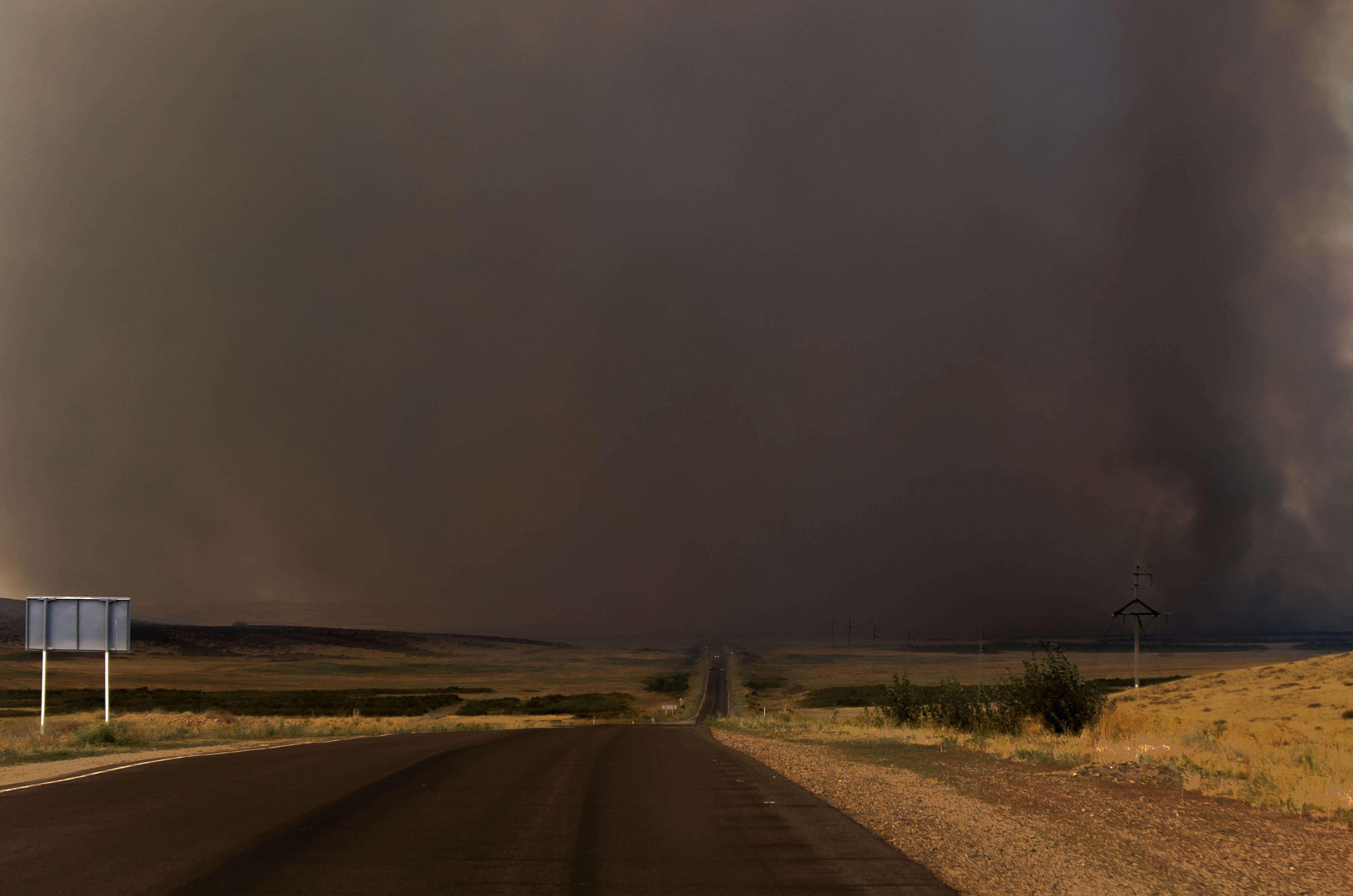 Burning Steppes of East Kazakhstan.